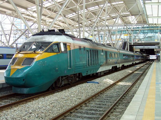 Korail Express "Saemaeul" old CI color